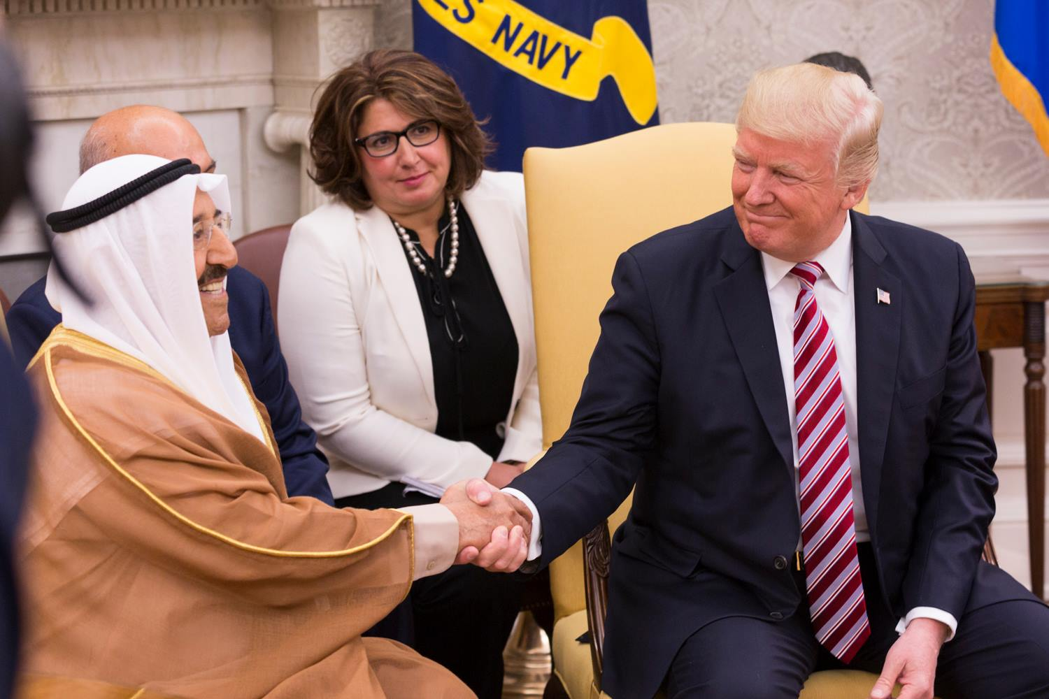 Photo of the Day: September 8, 2017 President Donald J. Trump and Amir Sabah al-Ahmed al-Jaber al-Sabah of Kuwait | September 7, 2017 (Official White House Photo by Stephanie K. Chasez)